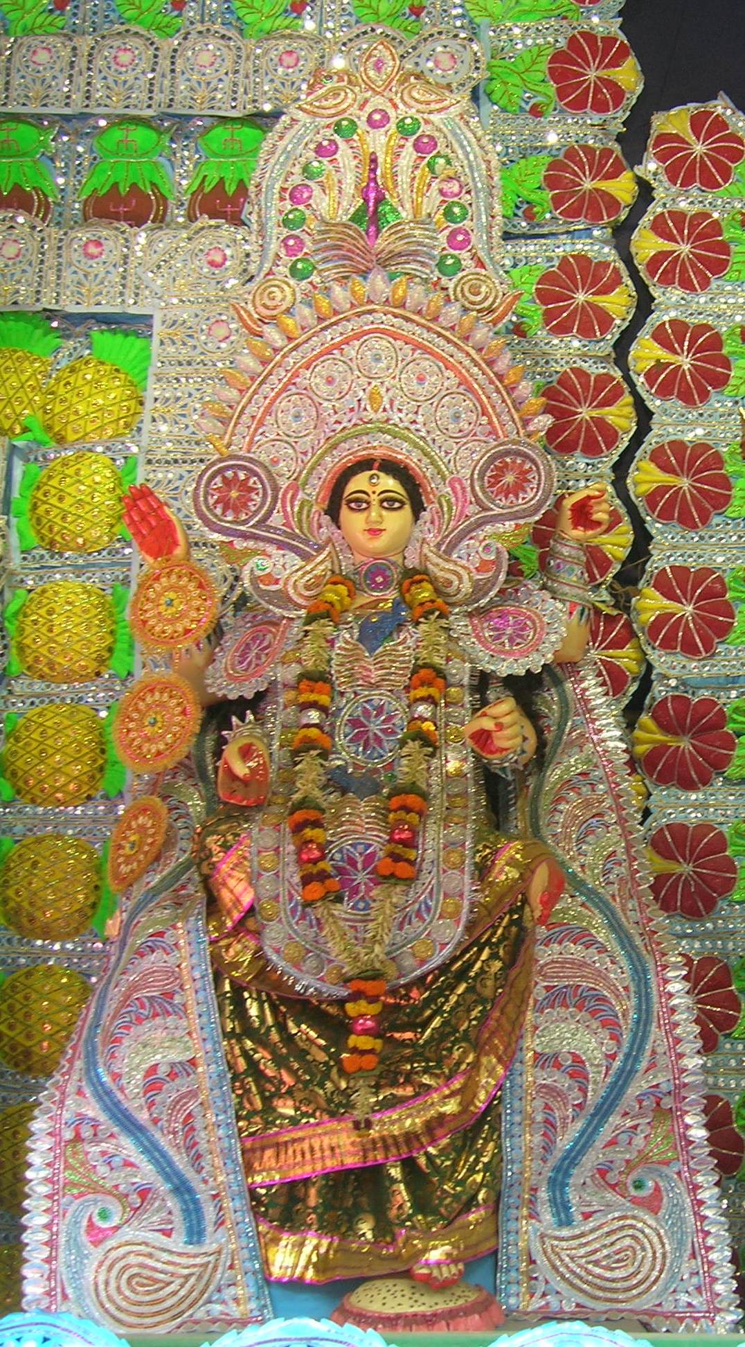 Bhubaneshwari at Janbajar Sammilito Kali Puja Samiti pandal, Kolkata.